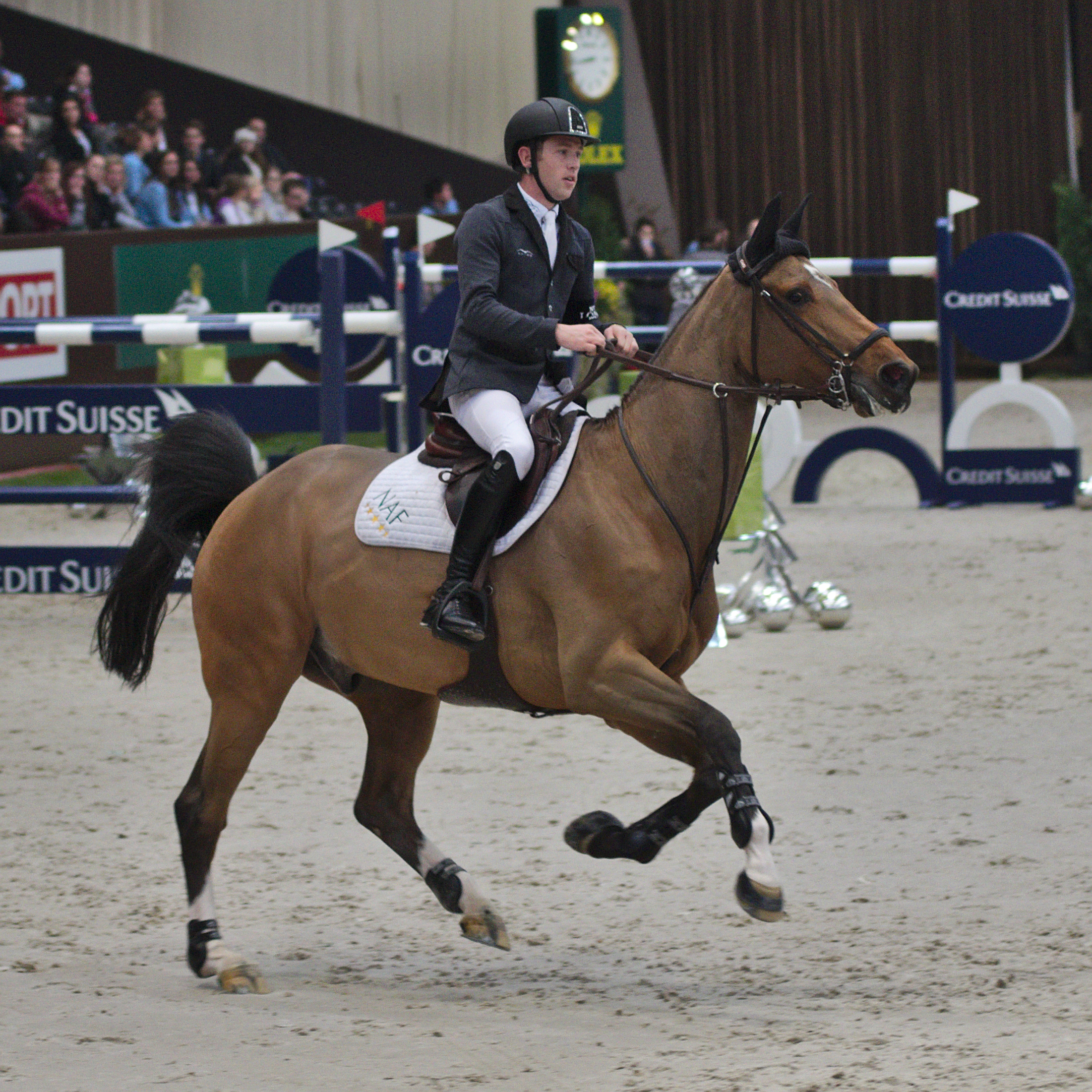 CHI Genève 2013 - 20131213 - Scott Brash et Hello Sanctos